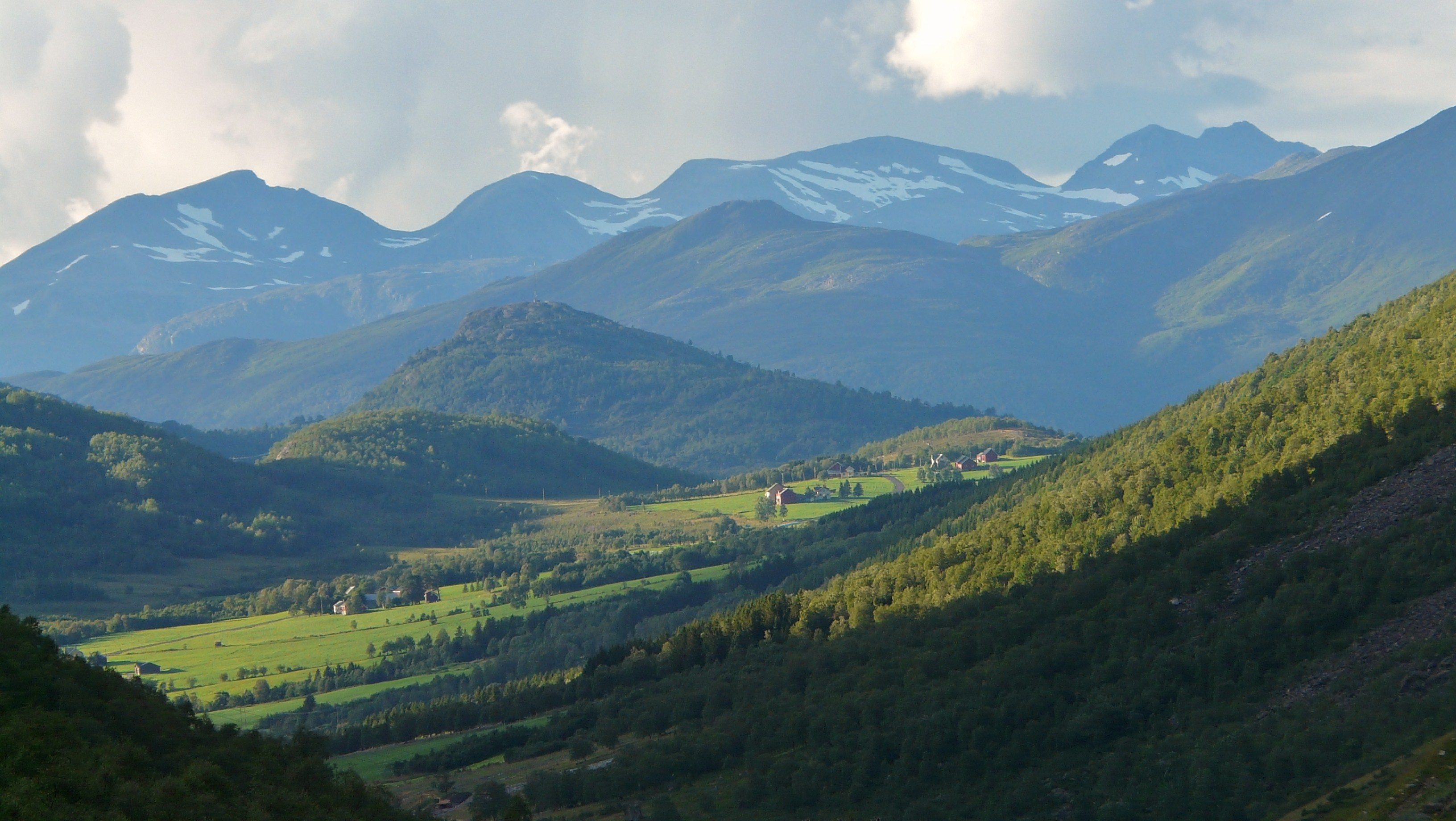 A view to Eidsdalen from a little south from the Oppskredtunnelen in 2008 August.